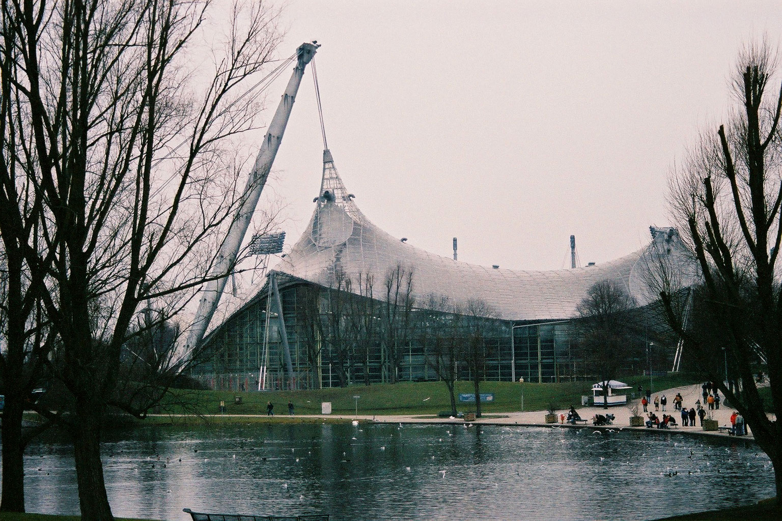 Olympiapark in München (Munich), Germany Olympic Sea and Olympic Swim Hall